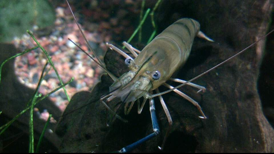 Giant Malaysian Prawn